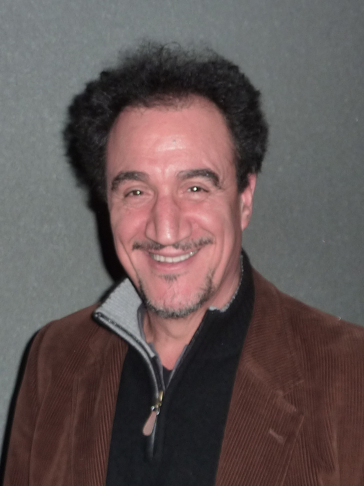 Mohamed Fellag during the premiere of Monsieur Lazhar in Geneva in 2012.